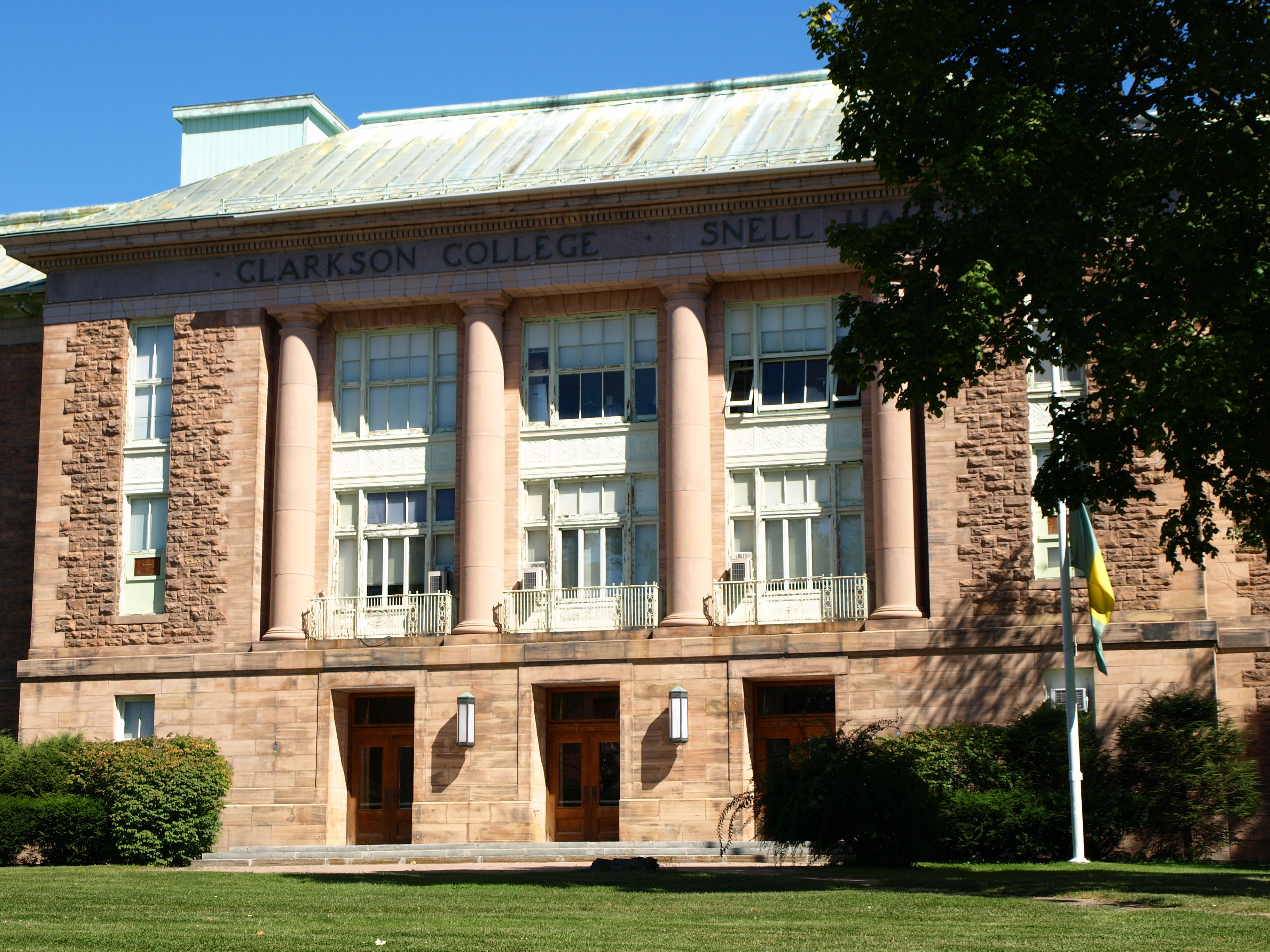 Snell Hall, Clarkson University, 2009